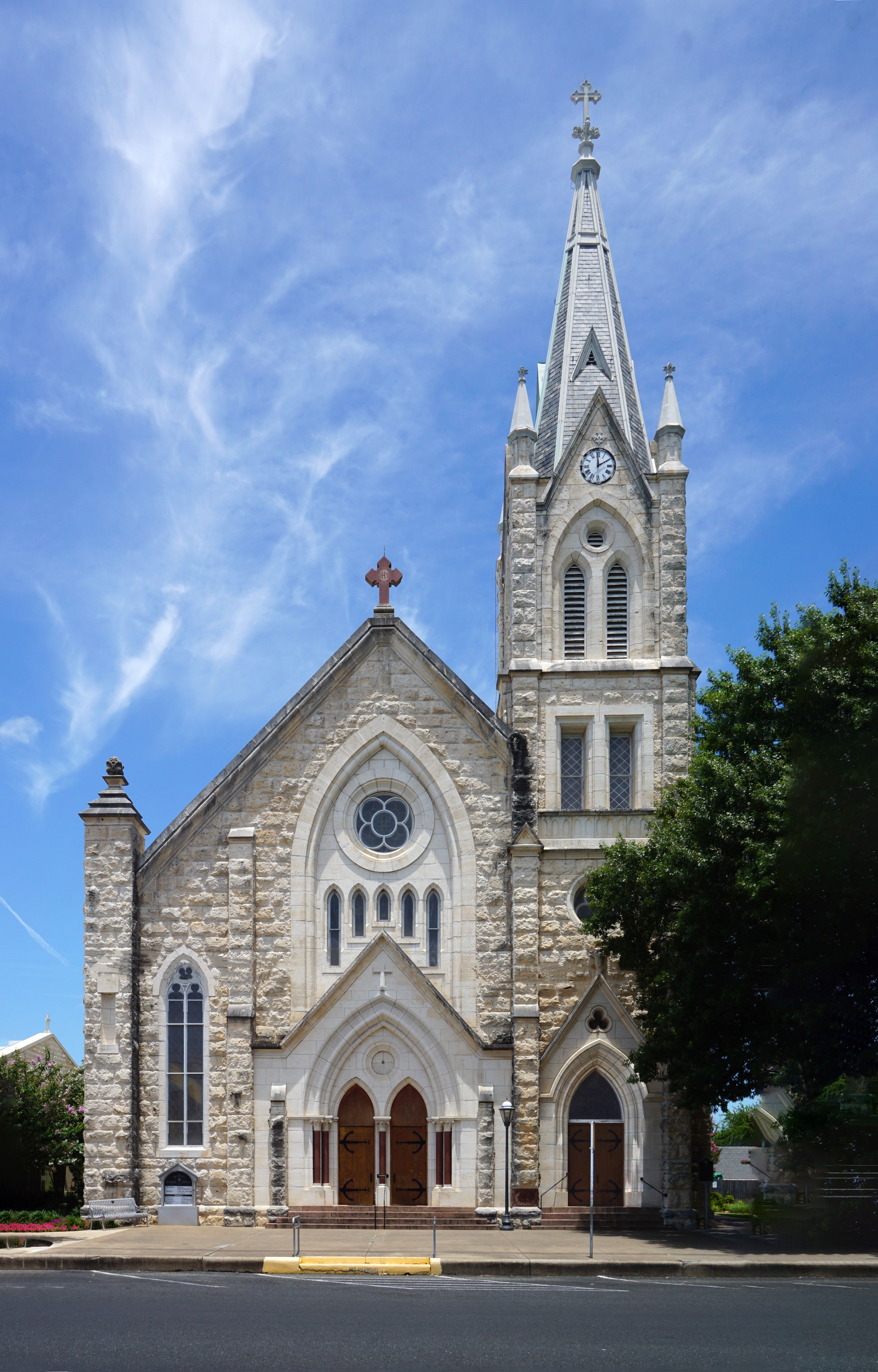 The Main Church of St. Mary's Catholic Church in Fredericksburg, Texas (United States).